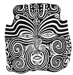 Tattooing on the face of Te Pehi Kupe, drawn by himself